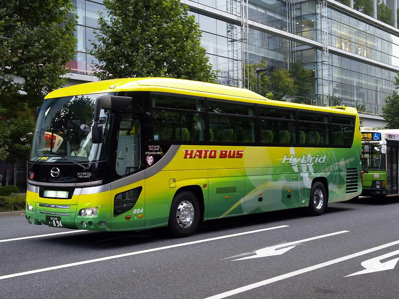 The earlier group of Hino Selega Hybrid, operated in Hato Bus for city tour as 60th anniversary. Model：BJG-RU1ASAR License plate: TKS230 A-894 Place: neighbour of Tokyo station, Marunouchi, Chiyoda ward, Tokyo Japan